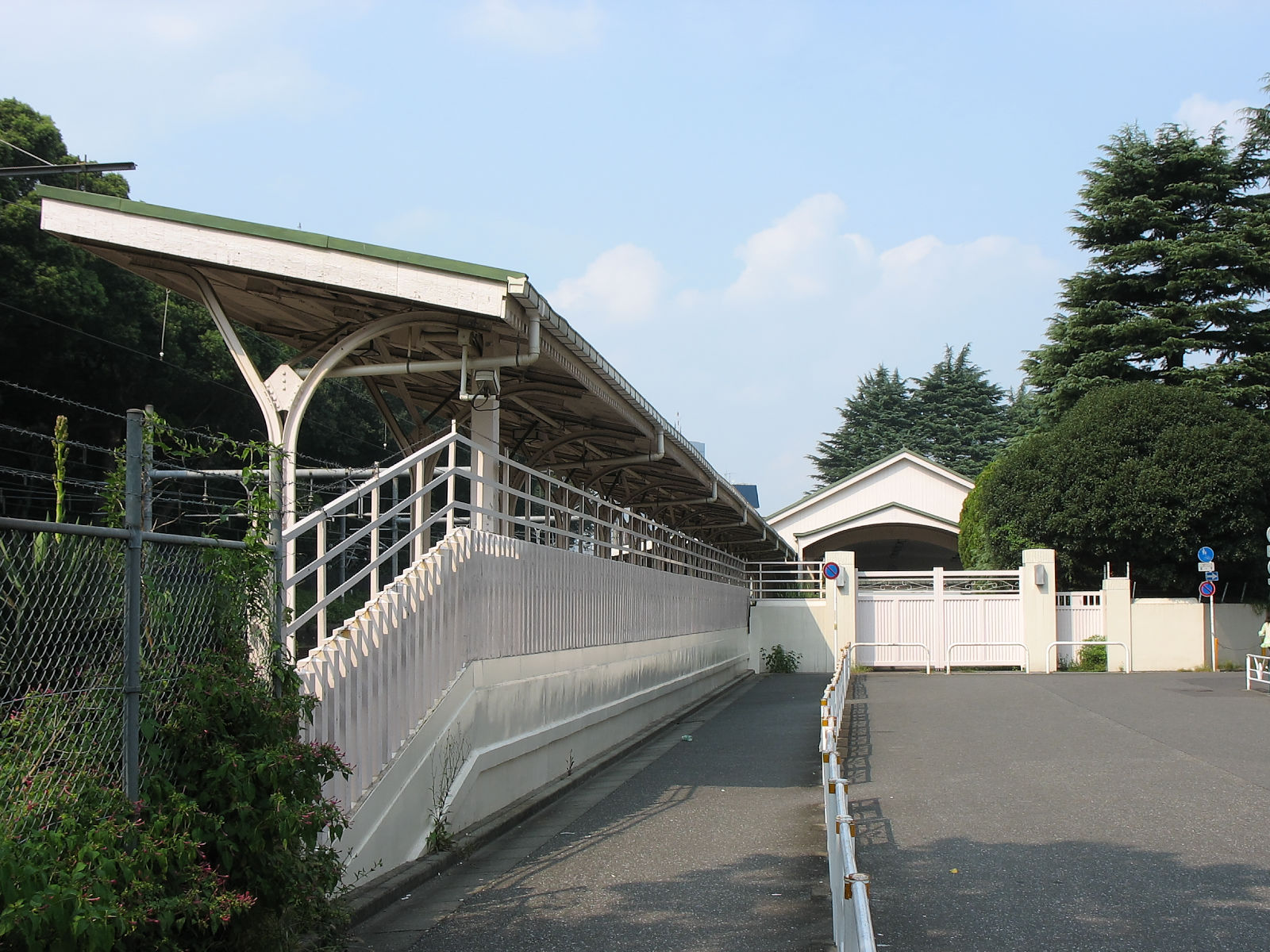 Entrance of "Kyutei-Platform" at JR-East Harajuku station.